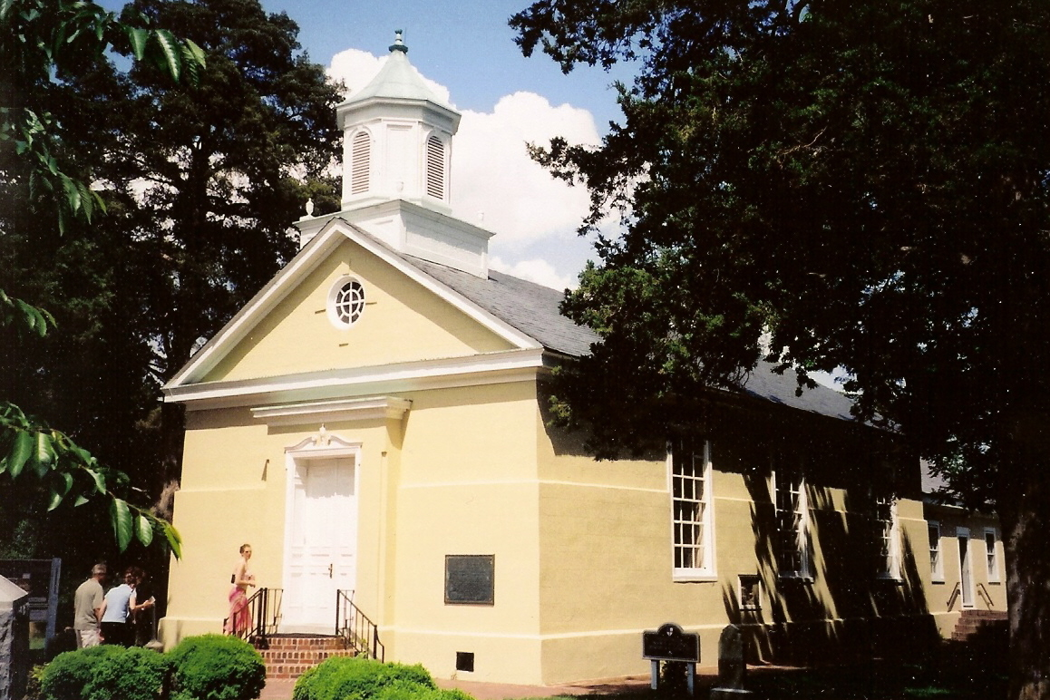 Yorktown itself is impressively maintained. Yorktown was named for York, a city in Northern England, and was founded in 1691 as a port for shipping tobacco to Europe. Yorktown was the base of British General Charles Cornwallis during the 1781 siege of Yorktown, the last major battle of the American Revolutionary War. Nine buildings still survive from this period, as well as many of the earthworks dug by the besieging American and French forces. There is also a memorial to the French war dead of the battle. Yorktown was also used as the base for the Federal Army of the Potomac under General George B. McClellan in the 1862 Peninsular Campaign. Yorktown is situated along the York River in southeastern Virginia. Yorktown has several distinct areas. Yorktown Village or Historic Yorktown is set on the York River, near the George P. Coleman Memorial Bridge that spans said river to reach Gloucester Point. Historic Yorktown is comprised first of a small strip along the beach of the York River, Water Street, which contains several small restaurants, a park, a hotel, a pier, and as of May 2005 completed a building project that has small shops and restaurants. Next, Main Street sits above Water Street on a bluff, around which the architecture is almost exclusively original. The old court house, several small shops, the Nelson house, as well as the Yorktown Monument sit along this road. Around the center of the town are residential streets. Also, architecturally of note is Grace Episcopal Church, situated on Church St. near the old courthouse of Yorktown. Shops and eateries making up the "Riverwalk" section on the waterfront opened in May 2005. Colonial National Historical Park, which contains Yorktown National Battlefield and Yorktown National Cemetery, is located on the outskirts of the town. President's Park is a new attraction displaying large outdoor statues of the heads of each American President accompanied by biographical plaques.